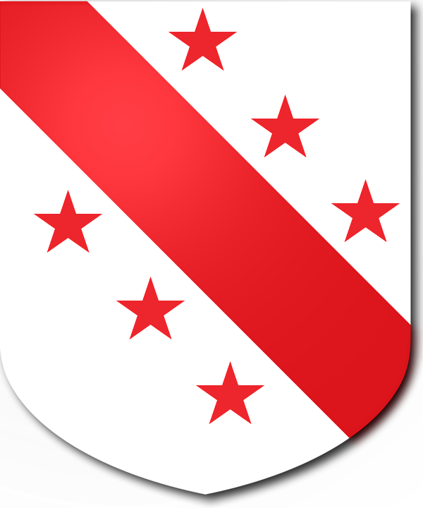 Arduino family shield